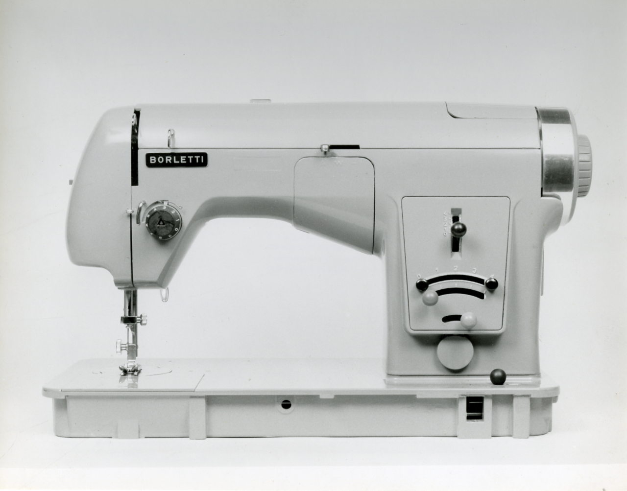 Sewing machine mod. 1102 by Marco Zanuso (Fratelli Borletti). Compasso d'oro Award.